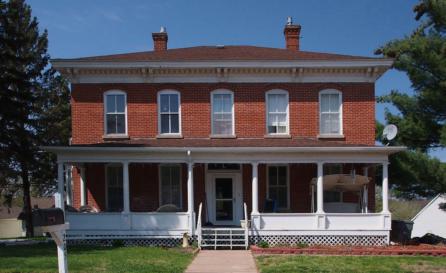 Thomas Henry Thompson House, 205 S. Adams St, St Croix Falls, Wisconsin, USA. Viewed from the east.